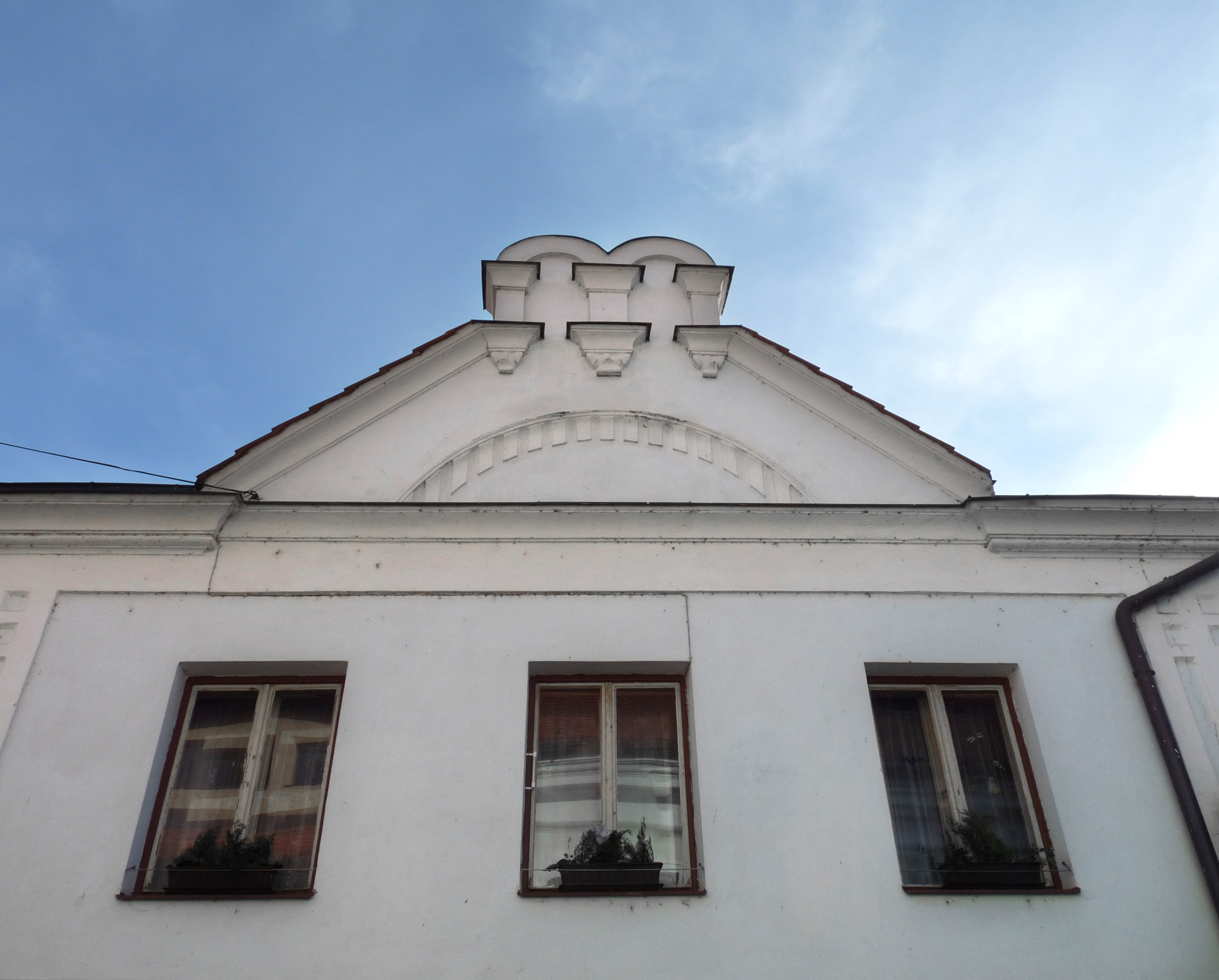 Gable of the frmer synagogue in the town of Třeboň, Jindřichův Hradec District, South Bohemian Region, Czech Republic.